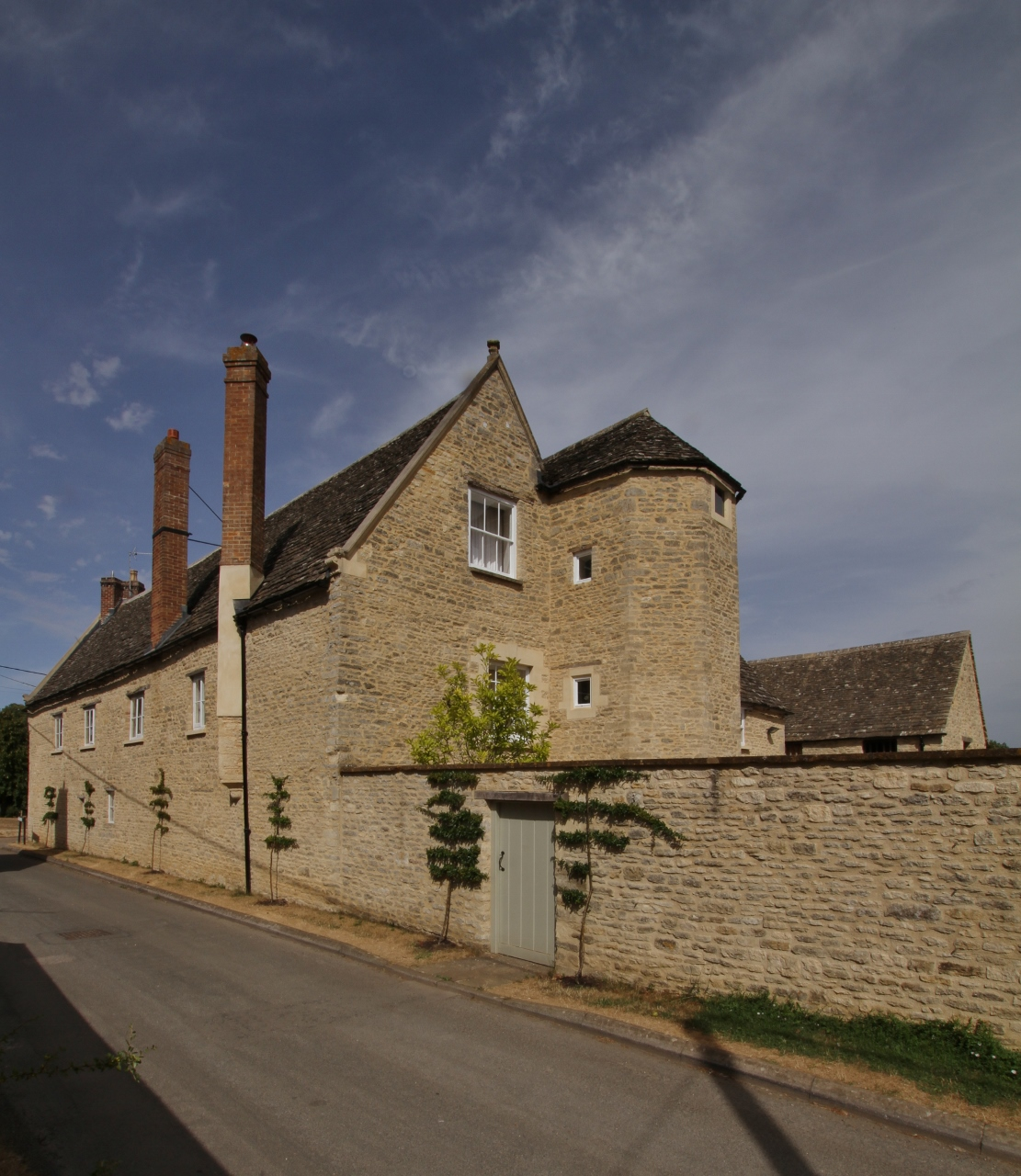 Kirtlington Manor House, Oxfordshire, seen from south-southwest from Church Lane